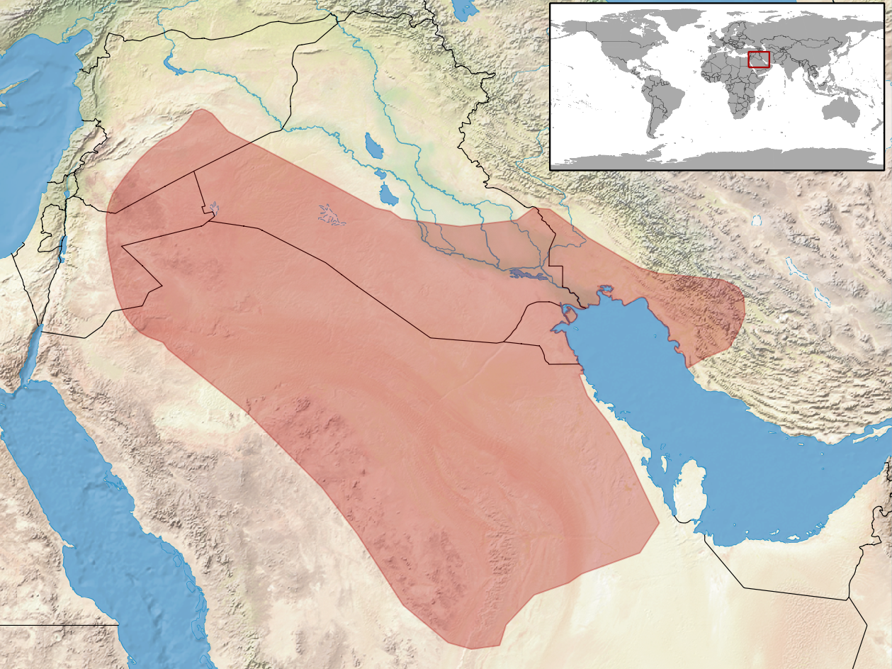 geographic distribution of Trapelus ruderatus (Native: Iran, Islamic Republic of; Iraq; Jordan; Kuwait; Saudi Arabia; Syrian Arab Republic)